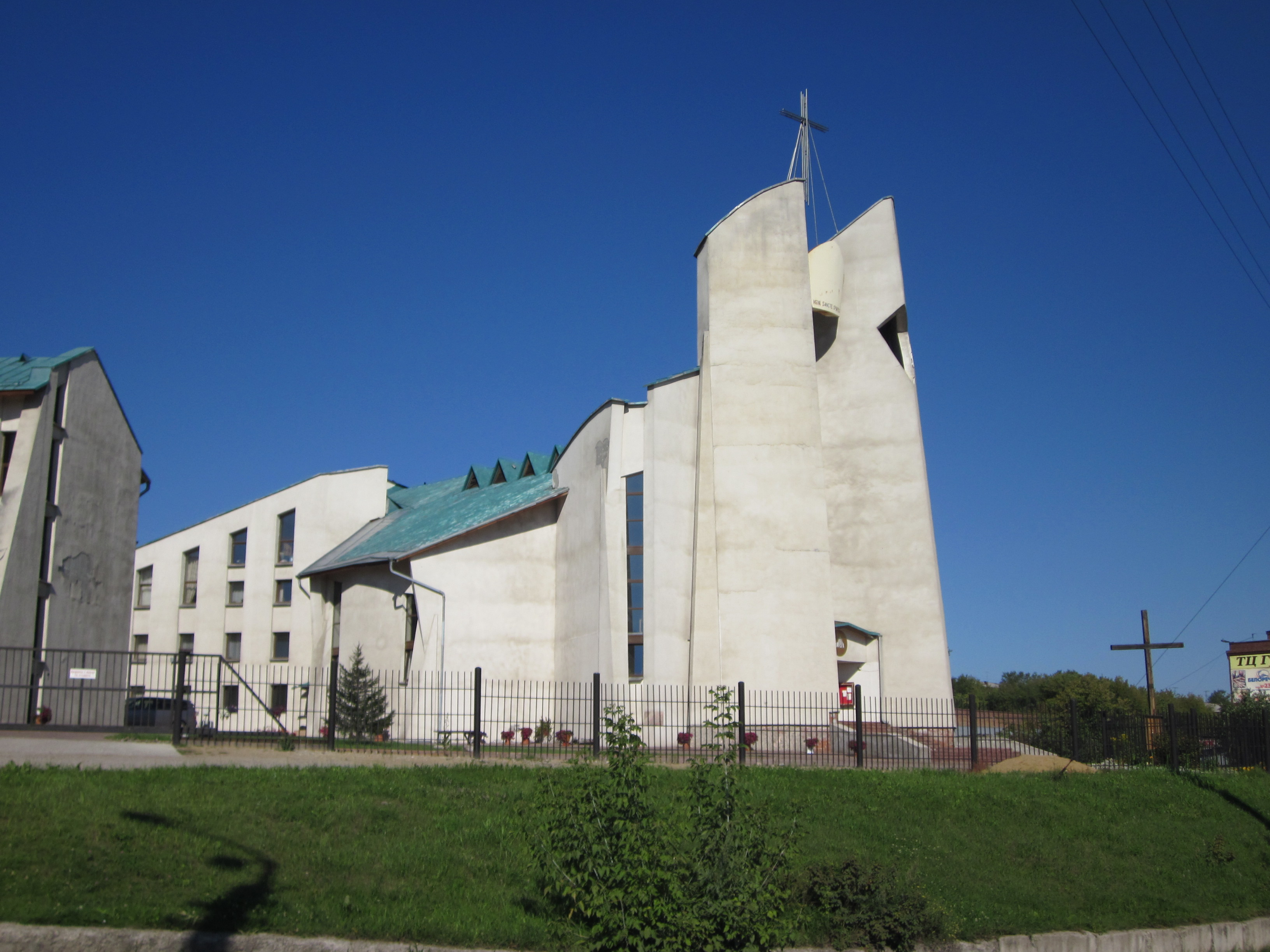 Immaculate Heart of Mary Roman Catholic Cathedral, Irkutsk, Russia